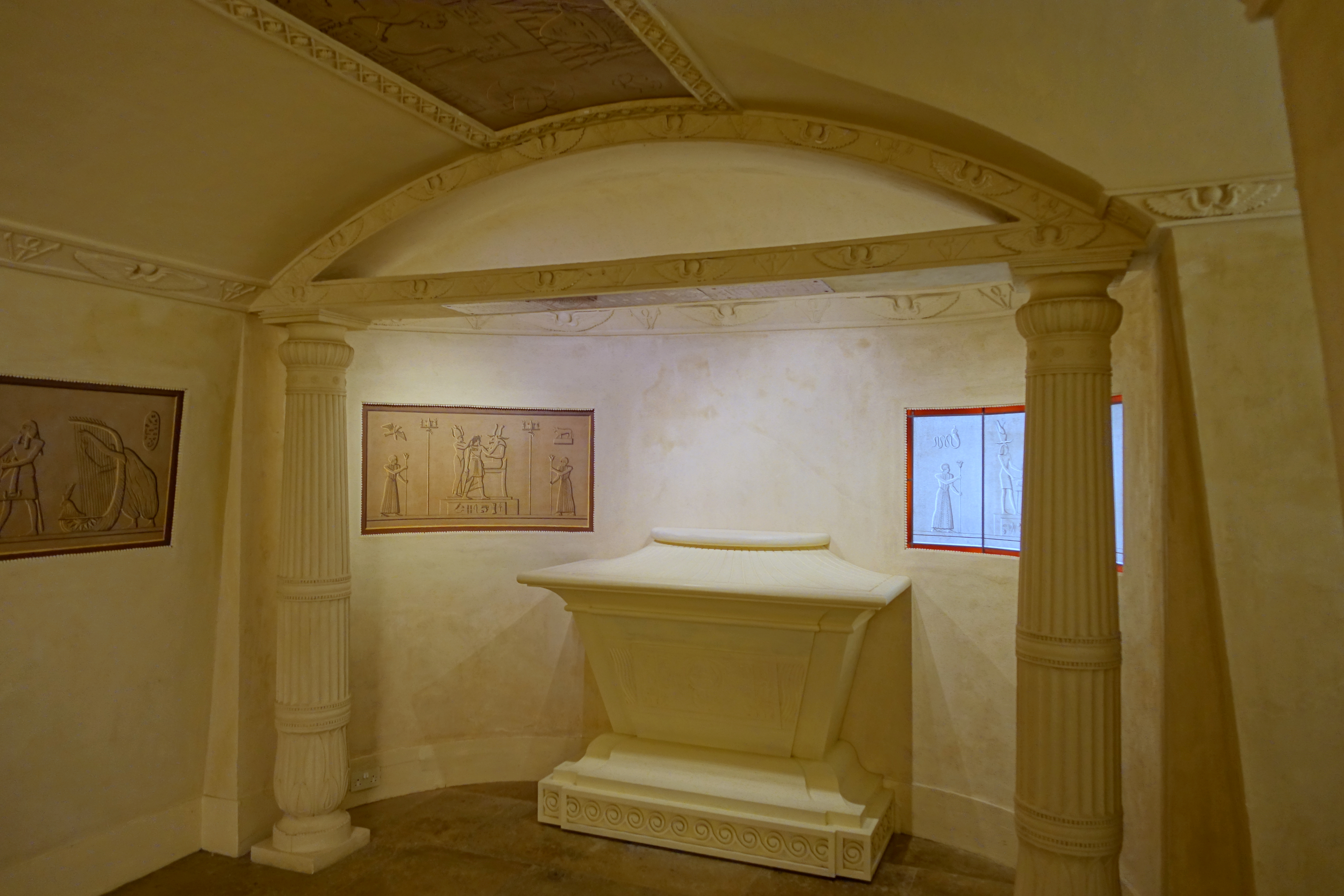 Interior view of Stowe House - Buckinghamshire, England.